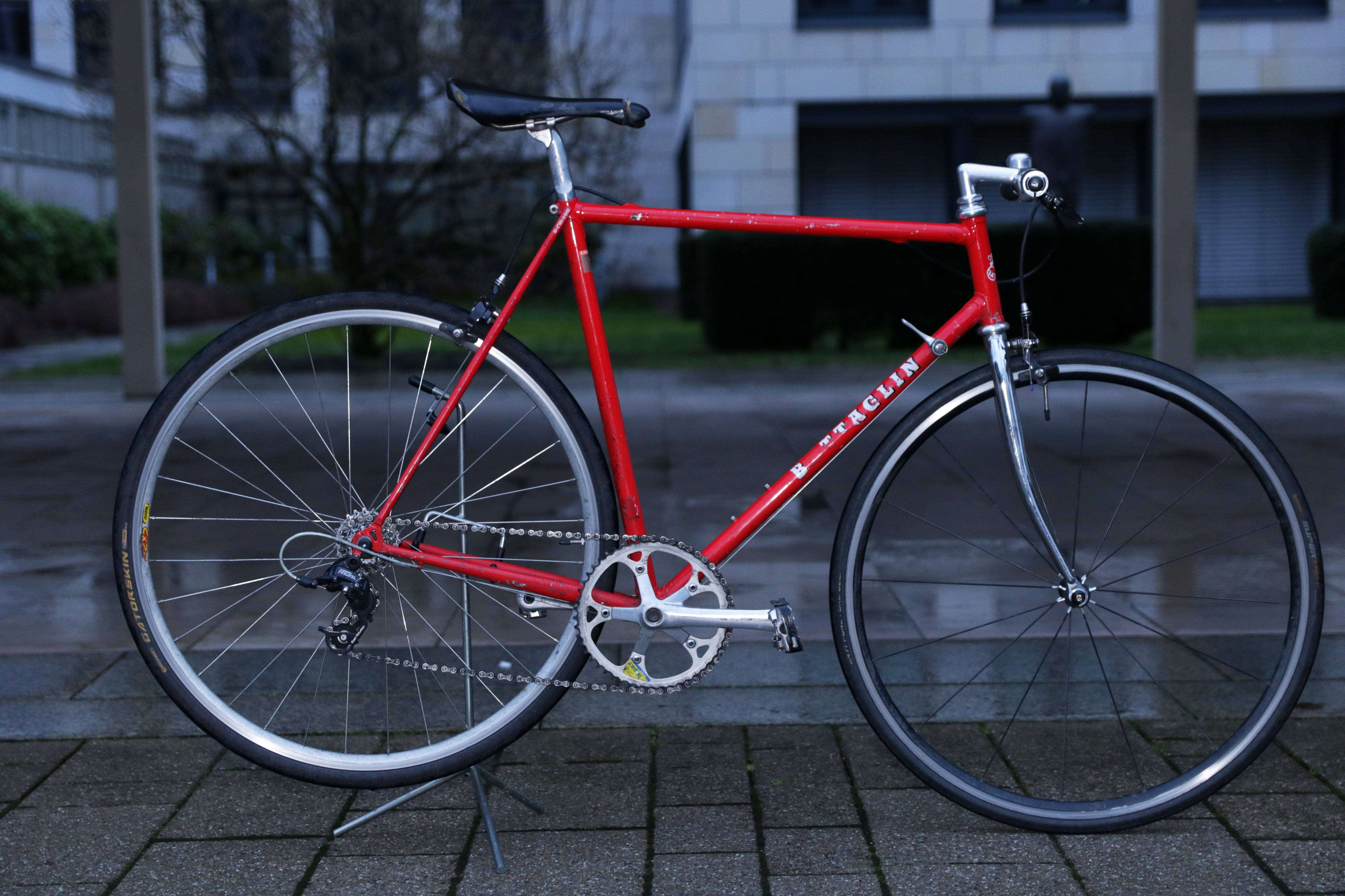 Battaglin Road Bike frame rebuild as speed bike in the blue our, at a north german hanseatic city